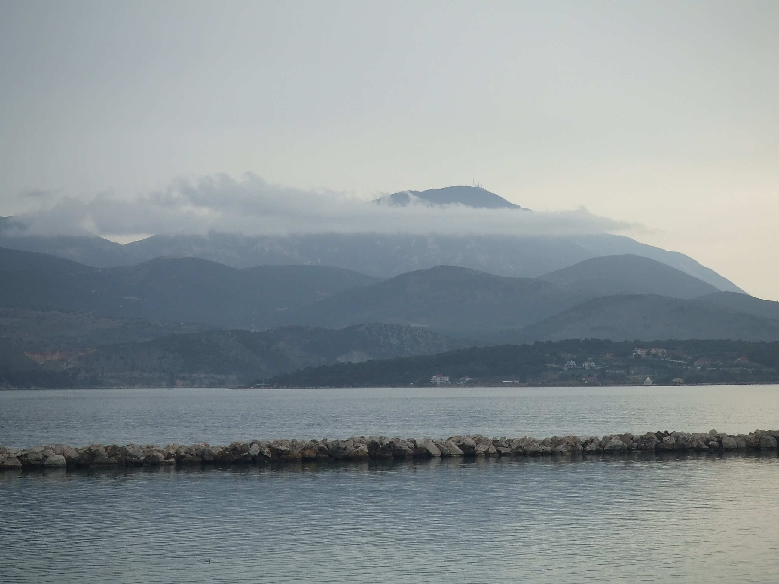 Mount Aenos in Kefalonia. Photo:Christos V.